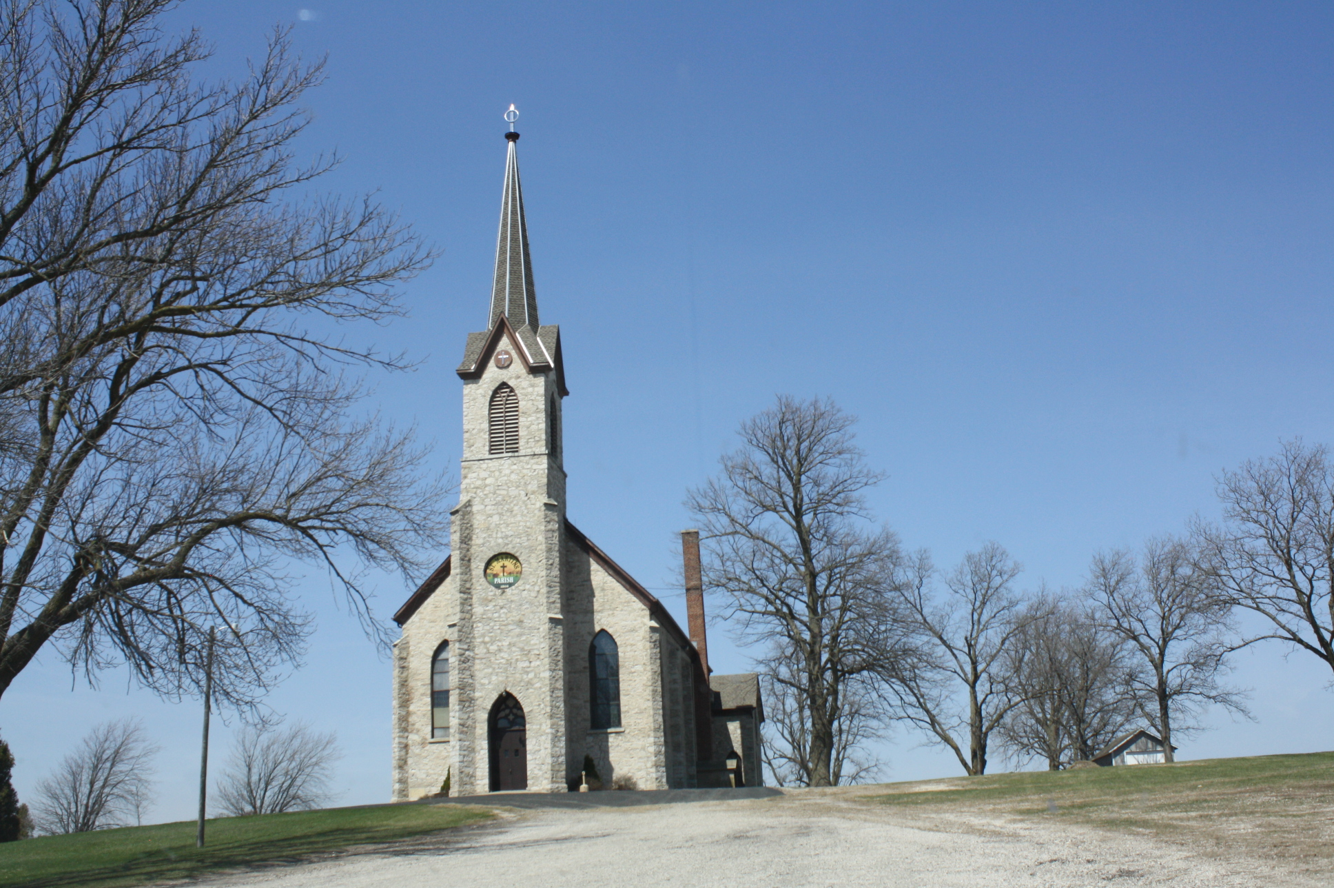 The St. Martin Catholic Church heritage park in the town of Charlestown, Wisconsin. The church was turned into a park. It has a state historic place in Wisconsin.